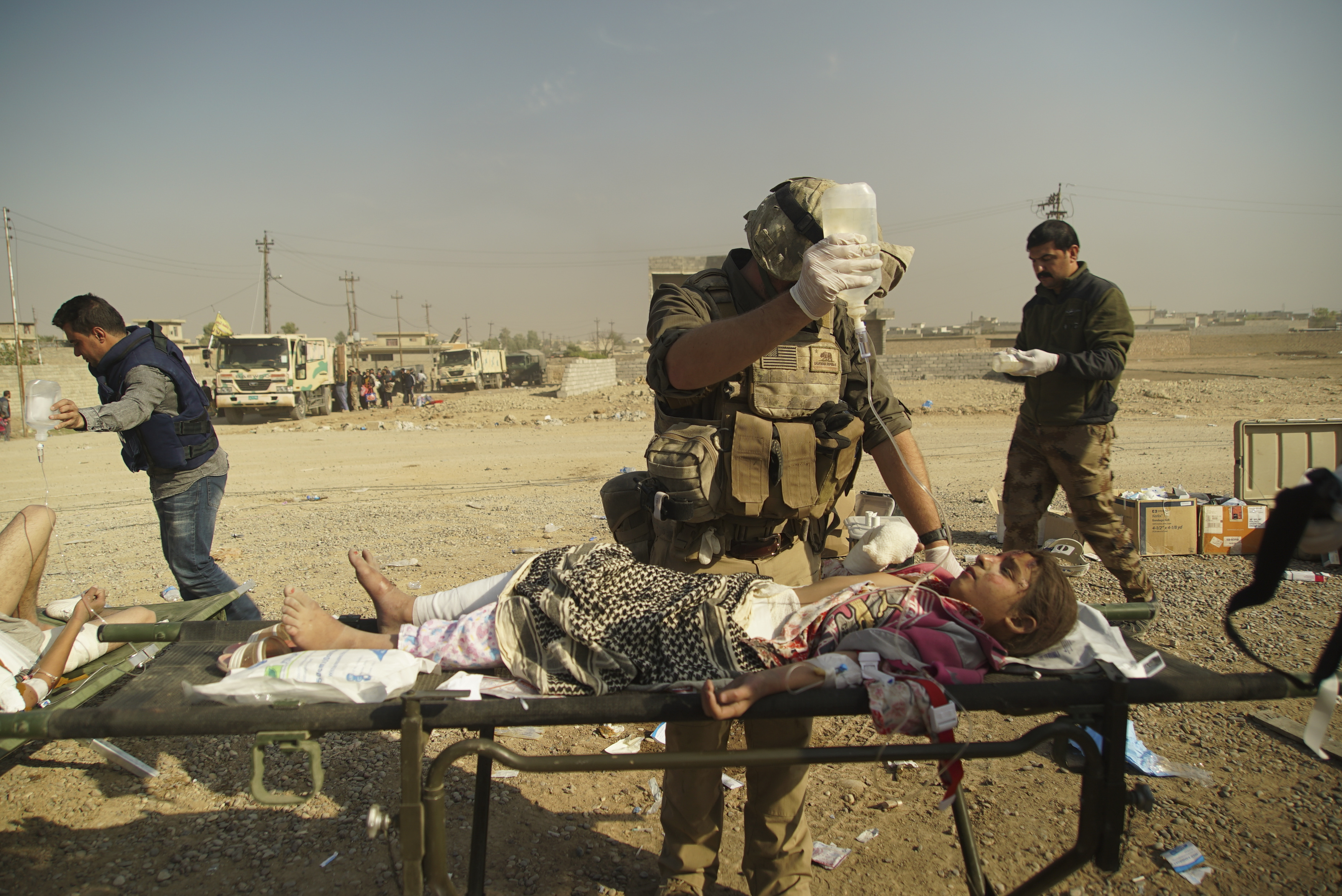 Field hospital in Mosul, Northern Iraq, Western Asia. 06 November, 2016.